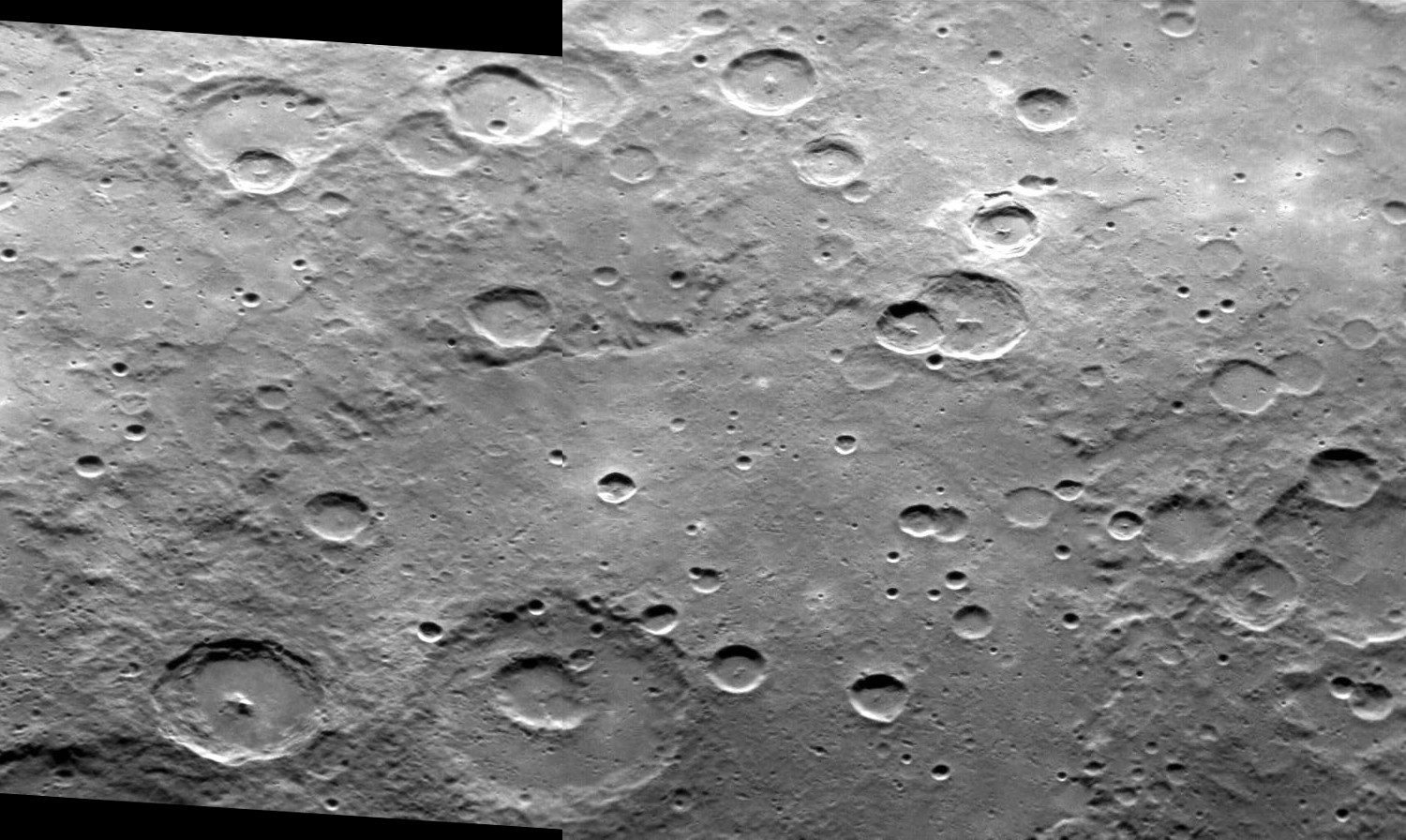 Oblique view of most of Dostoevskij crater on Mercury. Mosaic of two MESSENGER Narrow Angle Camera images. Right 2/3 is EN0213227304M, unmodified other than slight cropping. Left 1/3 is EN0213230544M, compressed vertically to match the right image better. Info below is for right image. Emission Angle: 40.3 Incidence Angle: 67.0 Latitude: -46.3 Longitude: 188.4 Phase Angle: 107.2